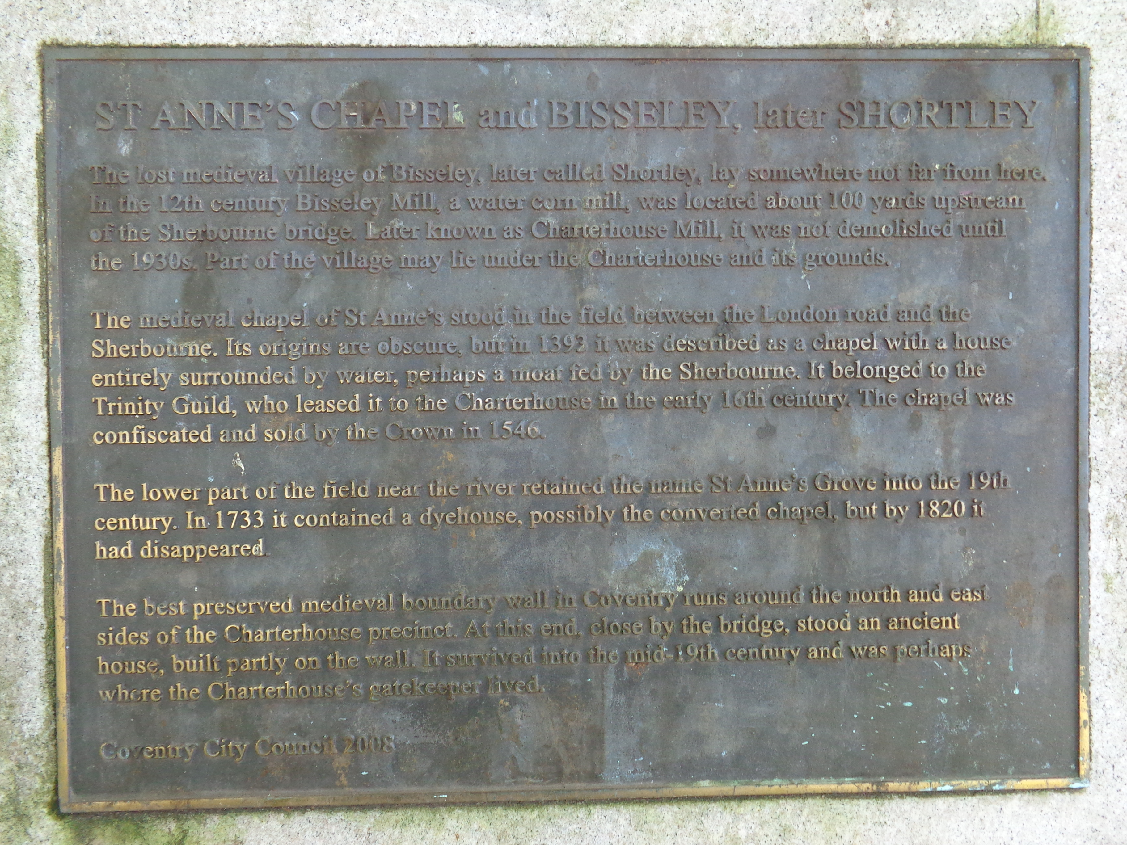 Information plaque at the Entrance to St. Anne's Grove. Strathmore Avenue, Coventry